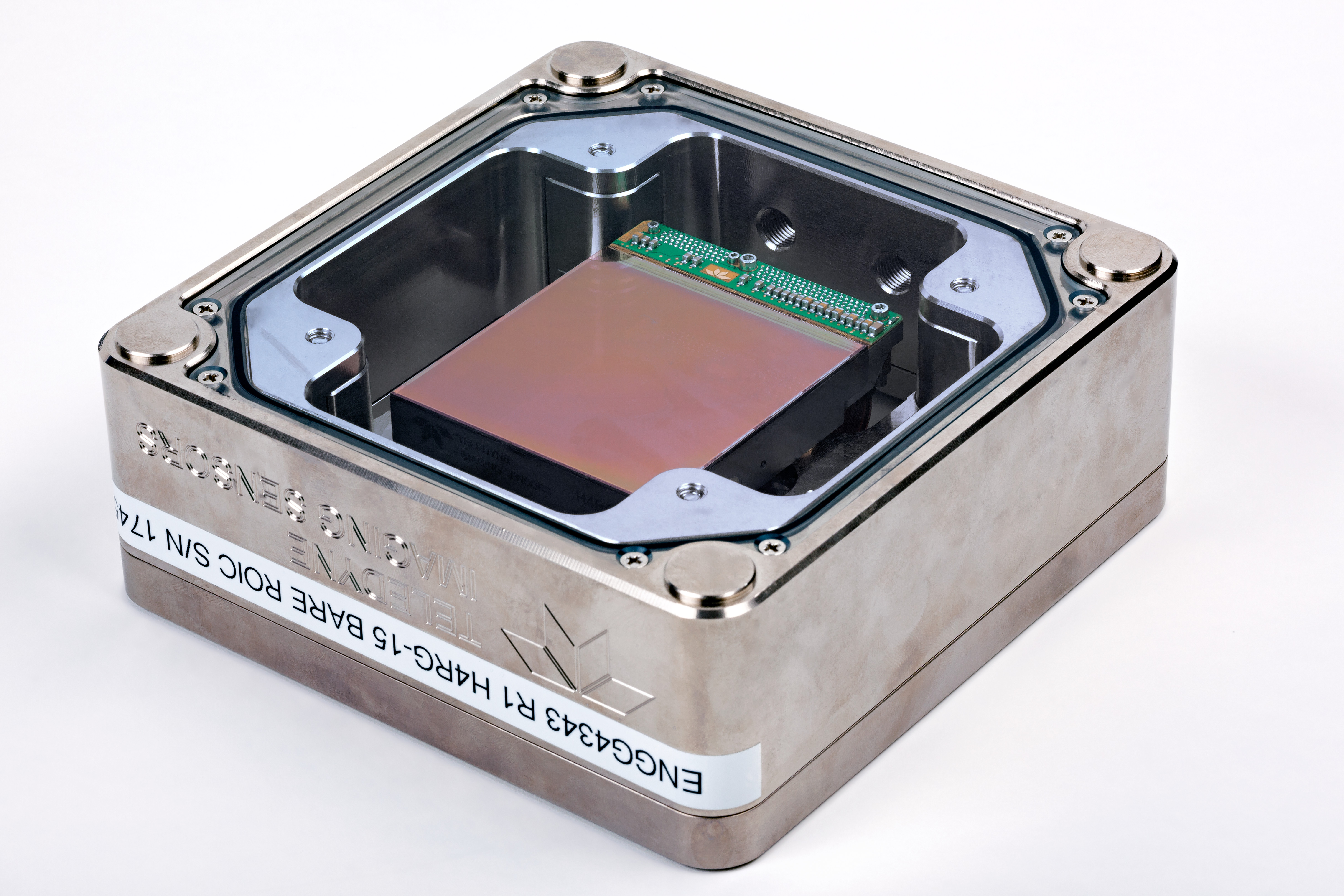 To be supplied by Teledyne Scientific&Imaging, this is one of the new generation of near-infrared detectors that will be used in the forthcoming MOONS spectrograph on ESO’s Very Large Telescope. These are the largest such detectors currently produced.